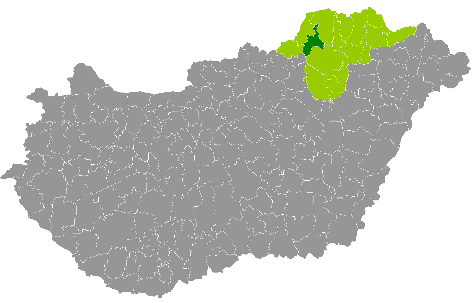 Location of Kazincbarcika District, Borsod-Abaúj-Zemplén, Hungary